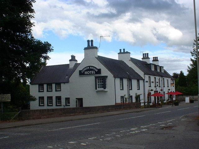 Conon-Bridge Hotel